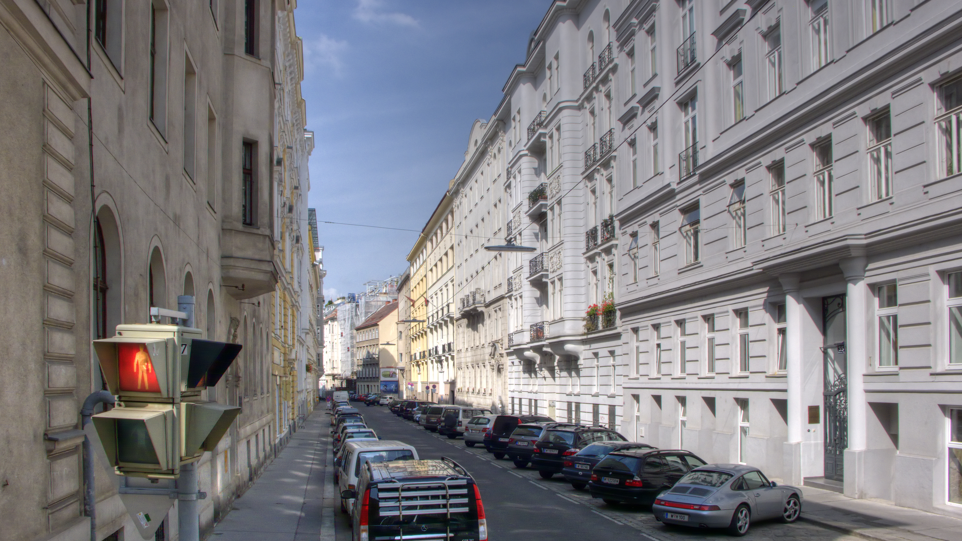 Reisnerstraße in Vienna Landstraße